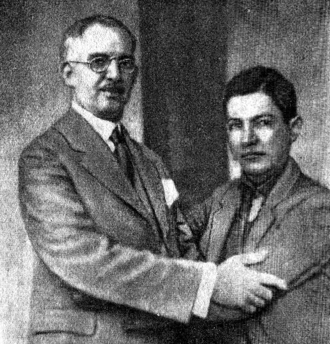 Juan Bautista Sacasa, president of Nicaragua, and general Sandino in 1934